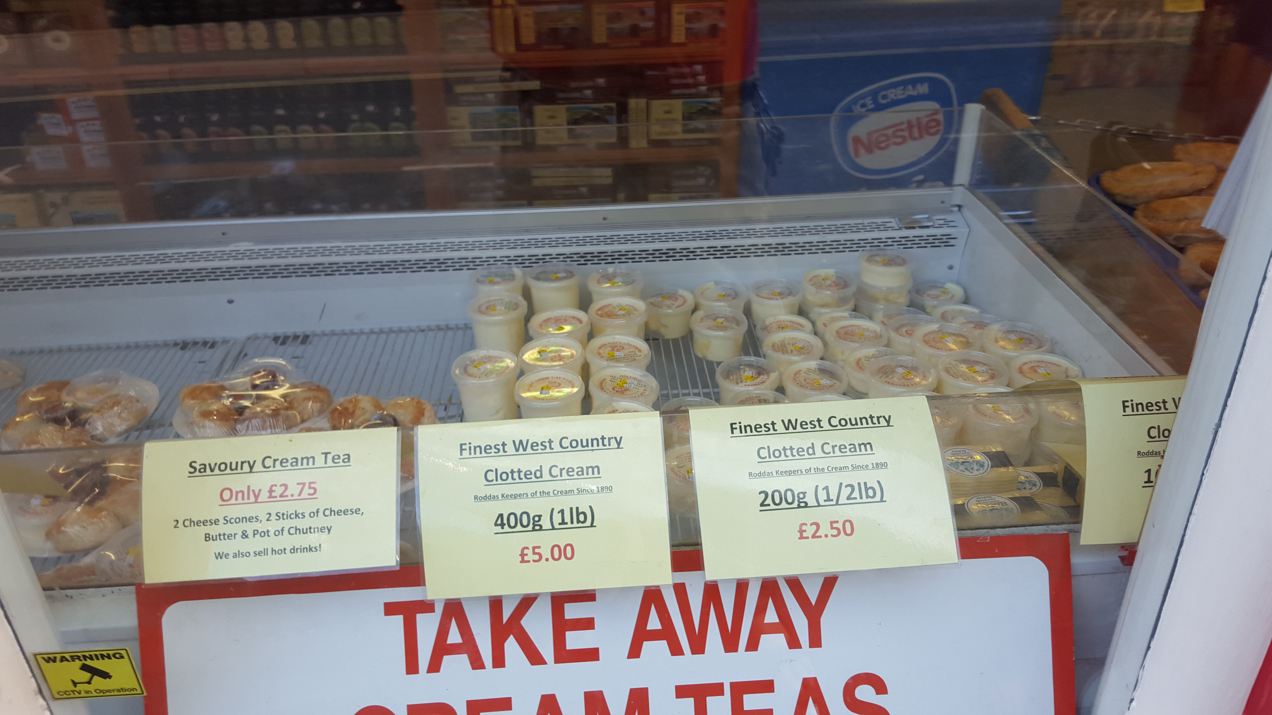 Take away cream teas with clotted cream